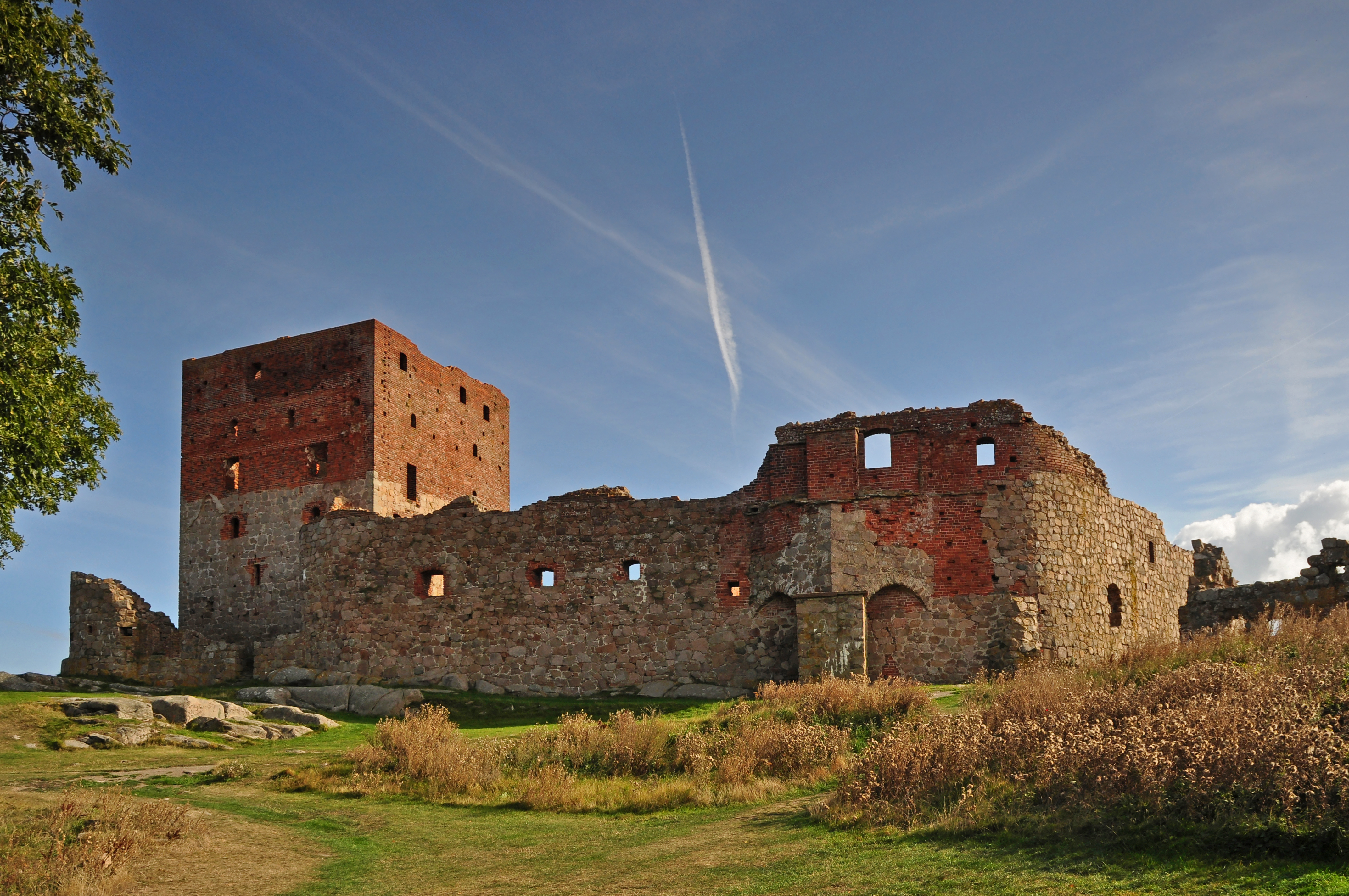 Hammershus is the ruin of a large medieval fortification, situated on the Danish island of Bornholm in the Baltic Sea.